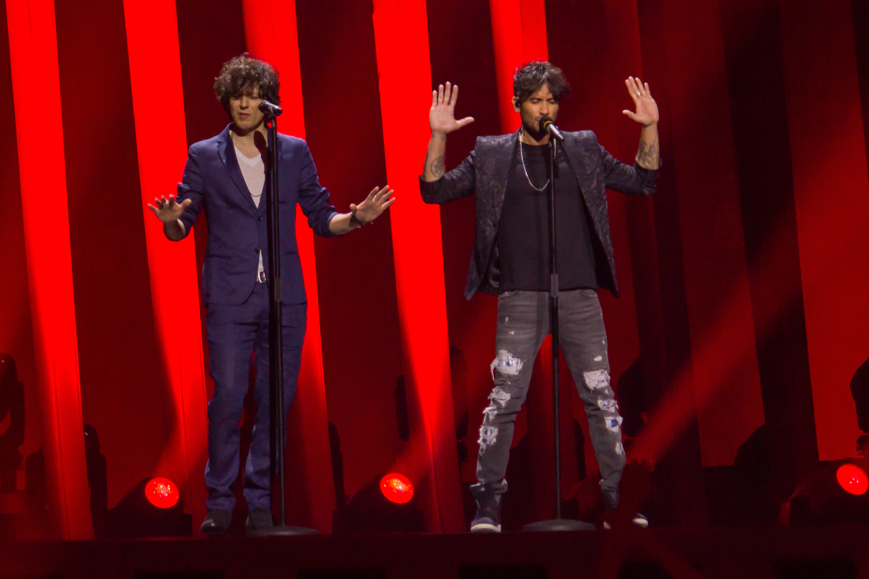 Ermal Meta and Fabrizio Moro perforering in Eurovision 2018